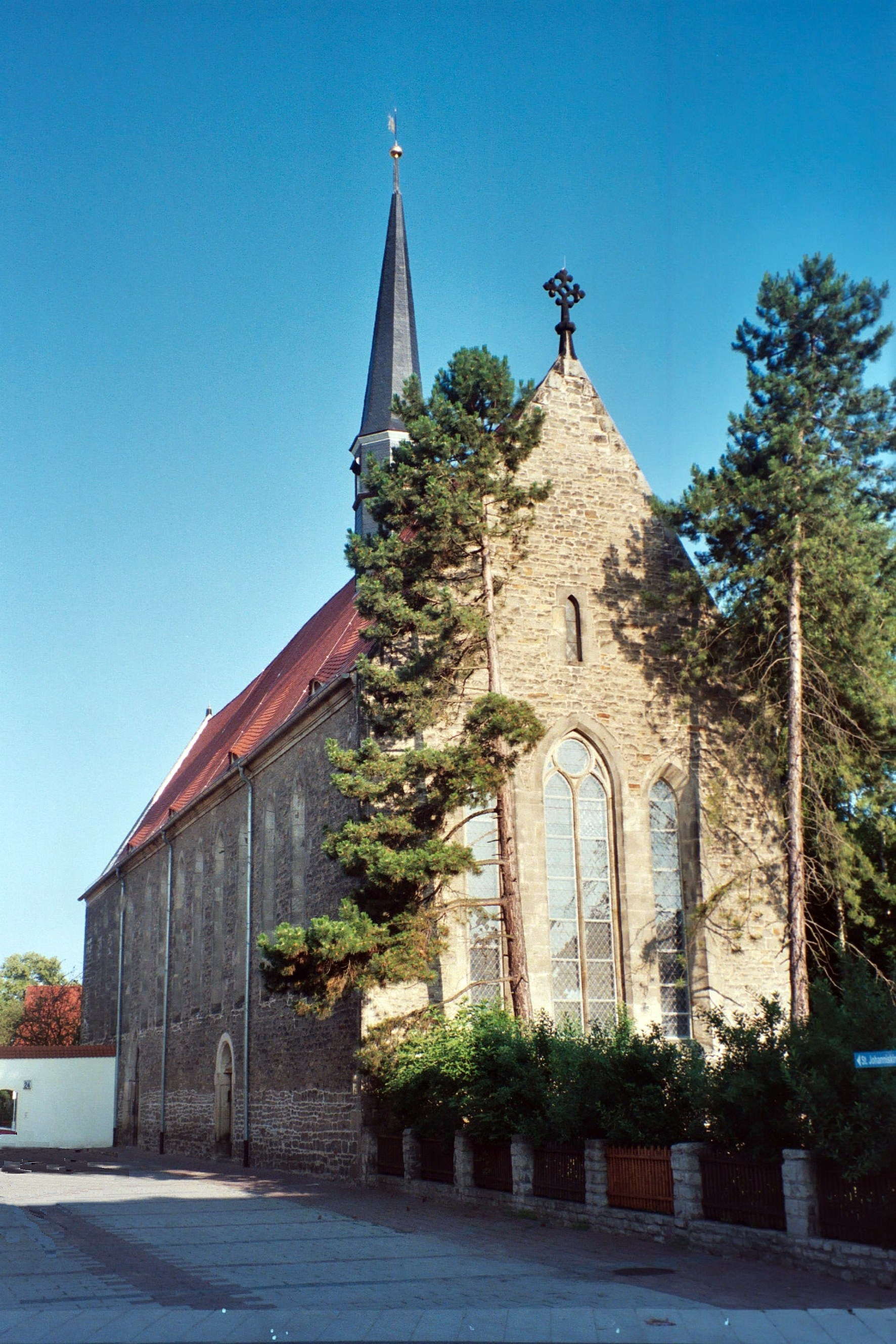 Barby, the church of St. John